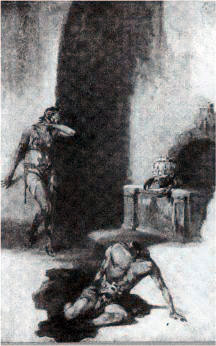 illustration of kaldane and rykor from The Chessmen of Mars